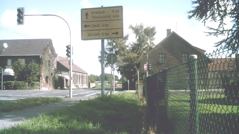 Hagen, Viersen, Germany